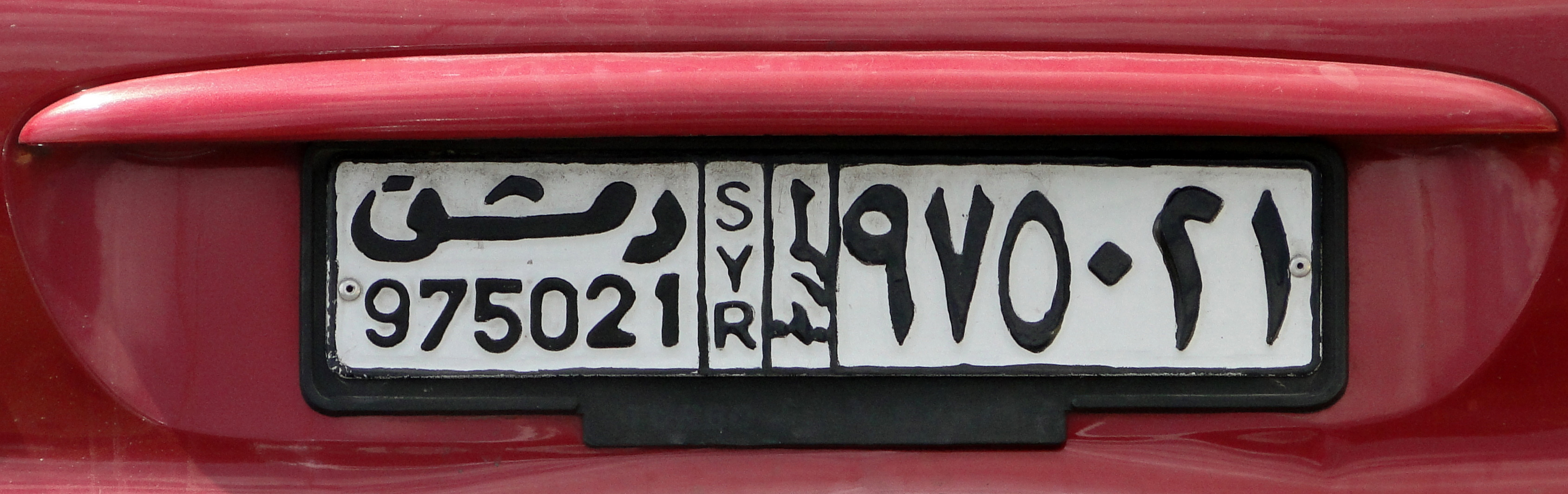 License plate of Syria